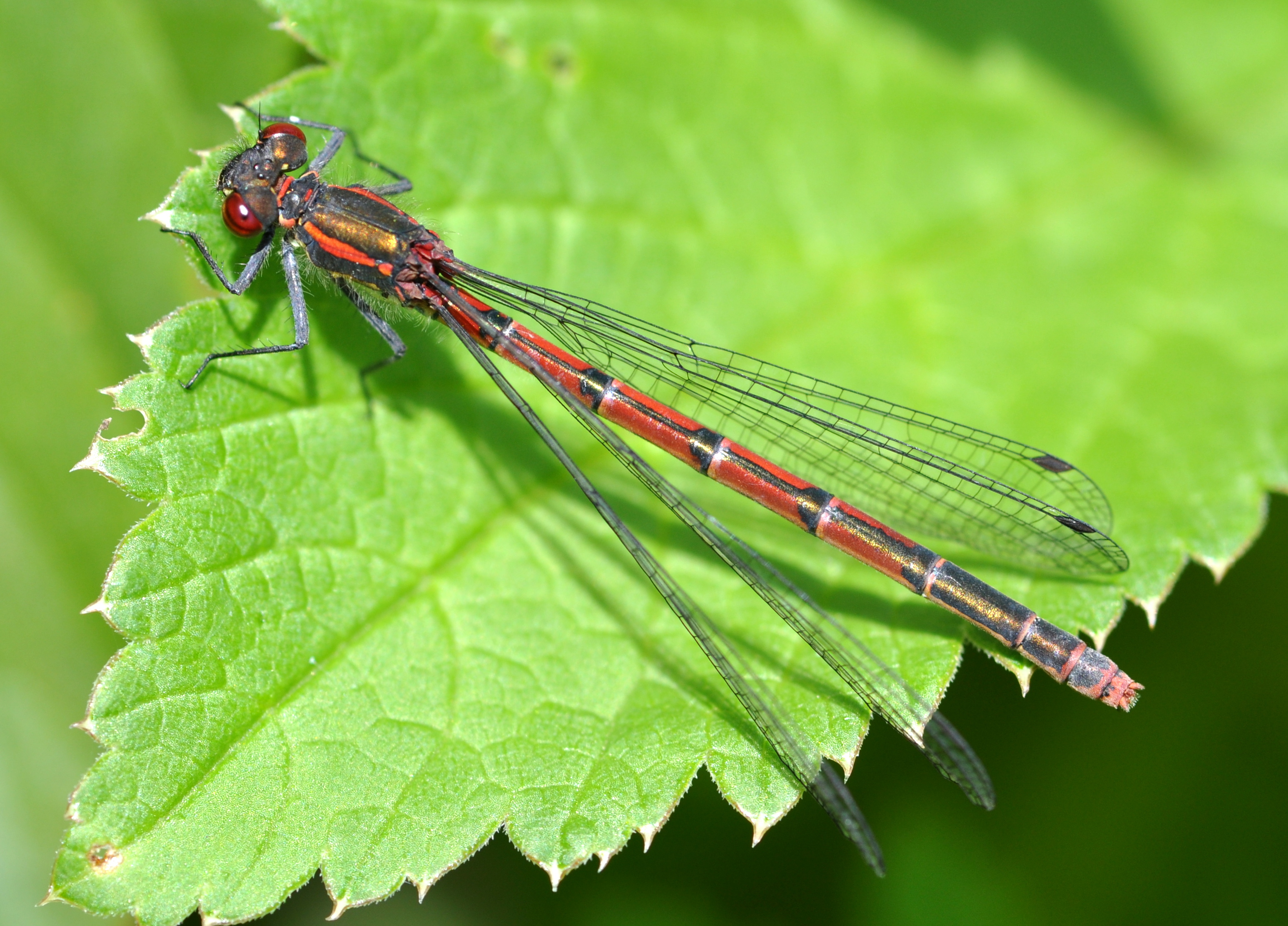 Female Large Red Damselfly (Pyrrhosoma nymphula f. typica) found in Sauerland, Germany.